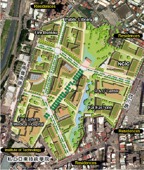 Tpark Blueprint